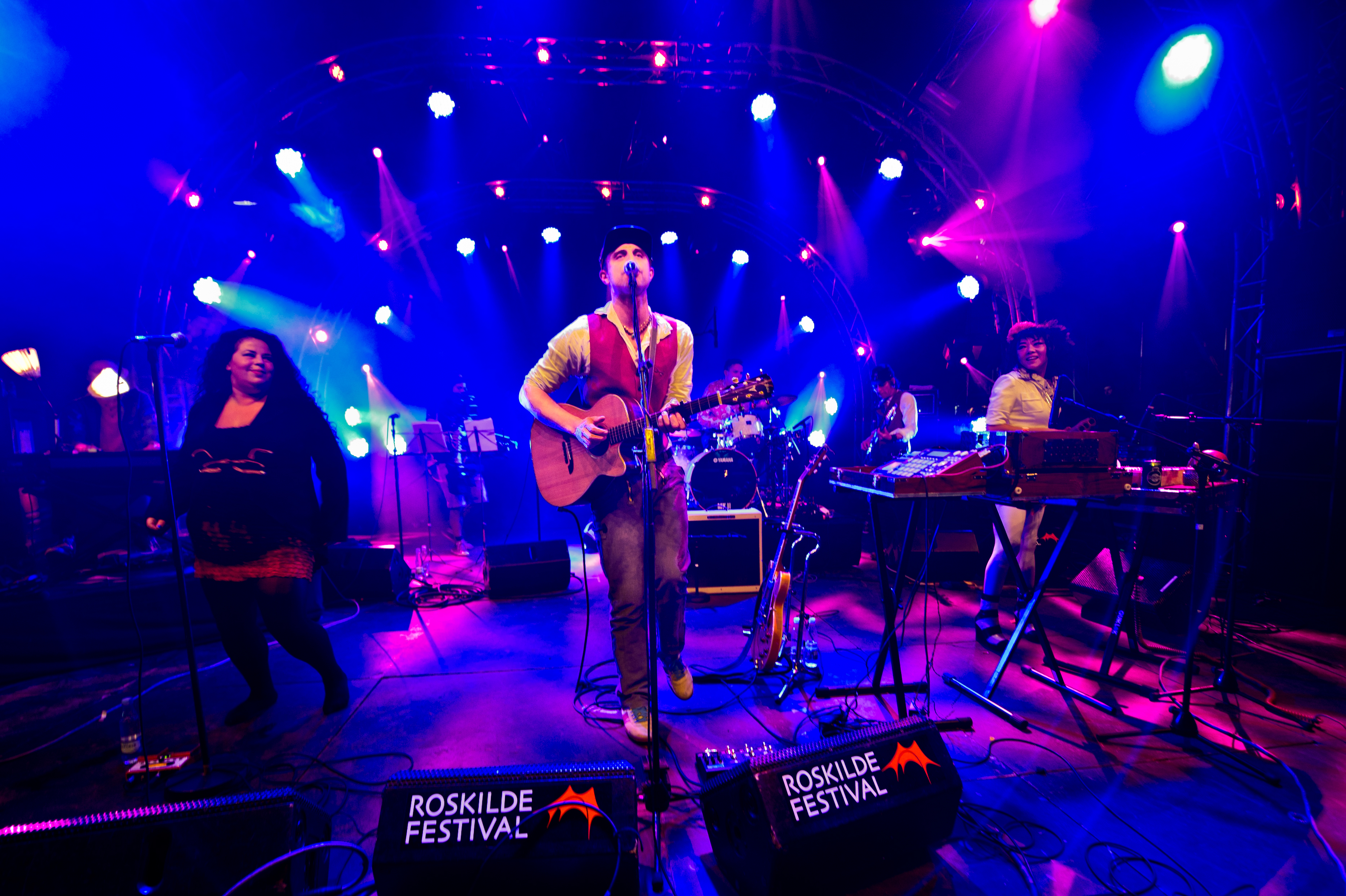 Fastpoholmen playing at Roskilde Festival 2011, Pavallion Junior - 26th of june 2011.